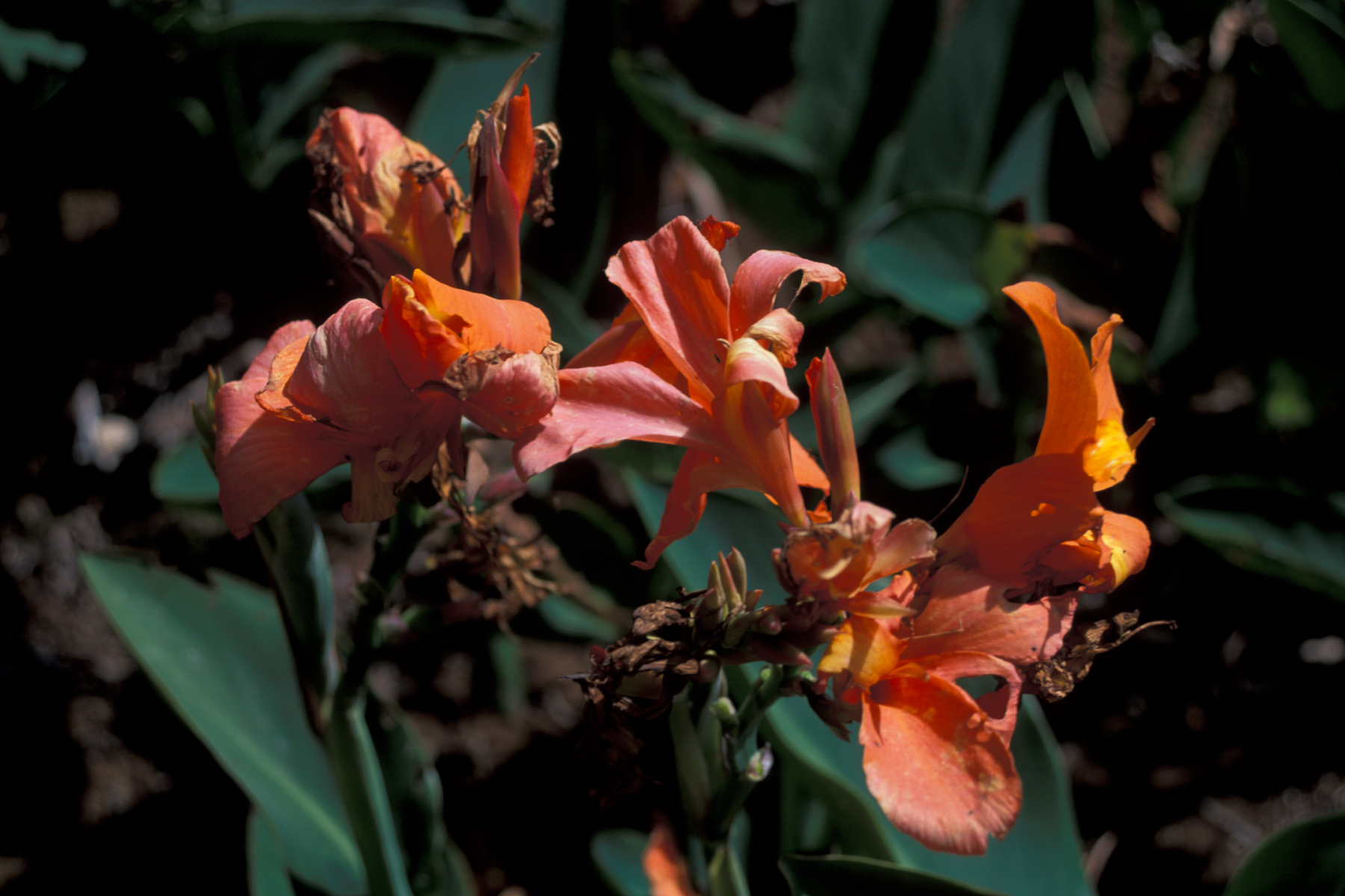 Canna x generalis (flowers). Location: Maui, Kula Experiment Station